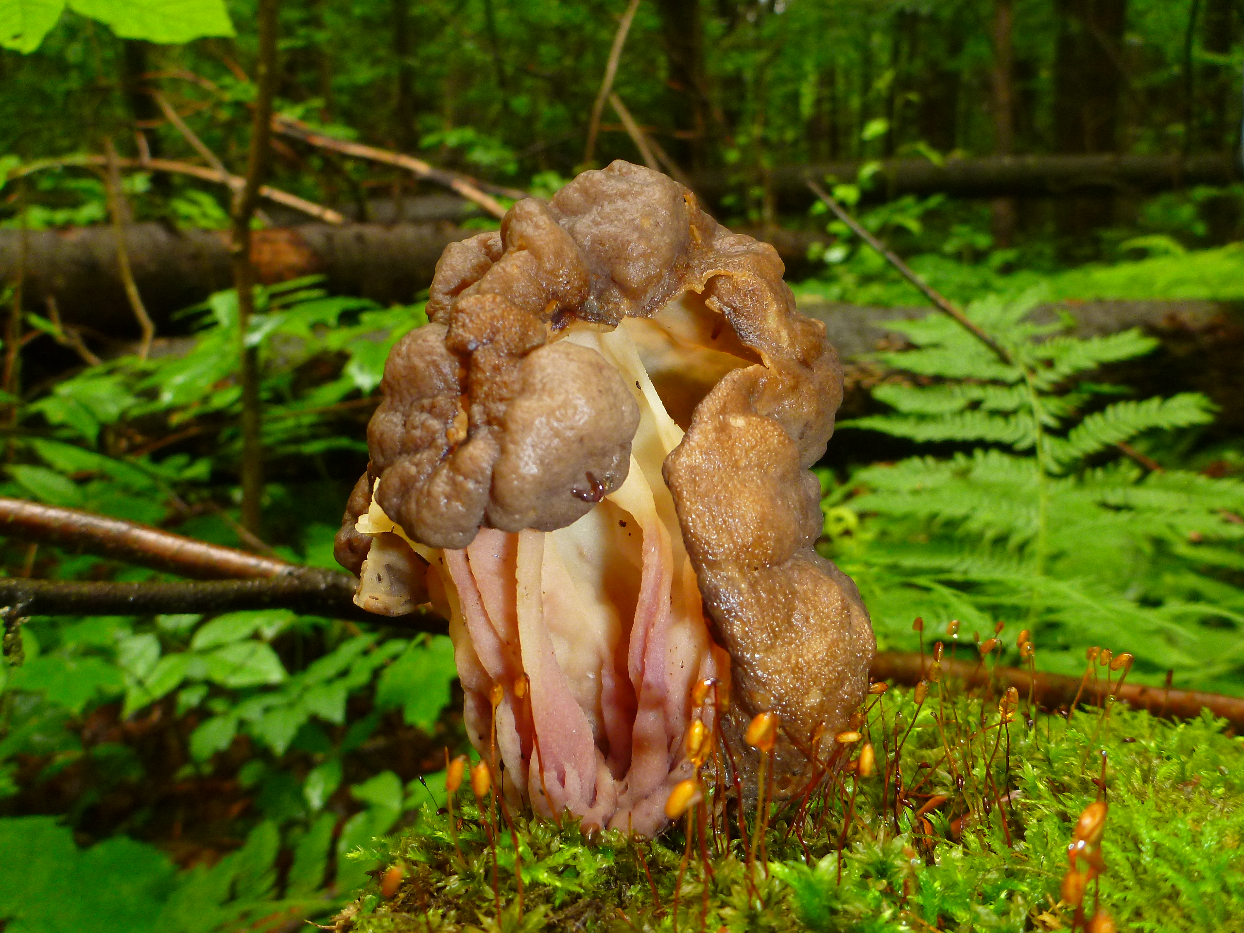 A fruit body of the ascomycete fungus Pseudorhizina sphaerospora (formerly in the genus Gyromitra). Photographed in Ottawa, Ontario, Canada.